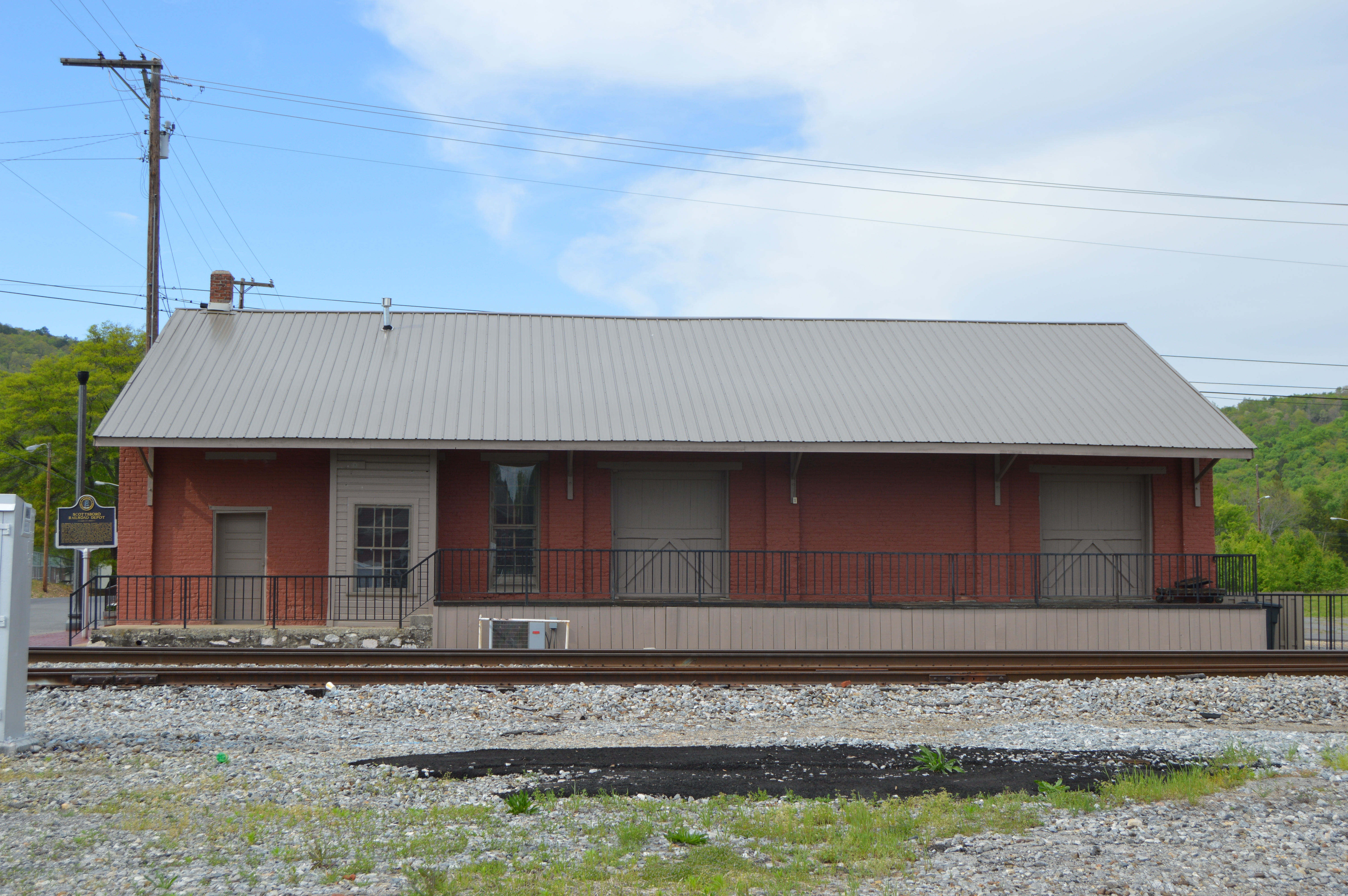 Southern side of the Scottsboro Memphis and Charleston Railroad Depot, located on the eastern side of Houston Street at the Maple Avenue intersection in Scottsboro, Alabama, United States. Built in 1861, it is listed on the National Register of Historic Places.